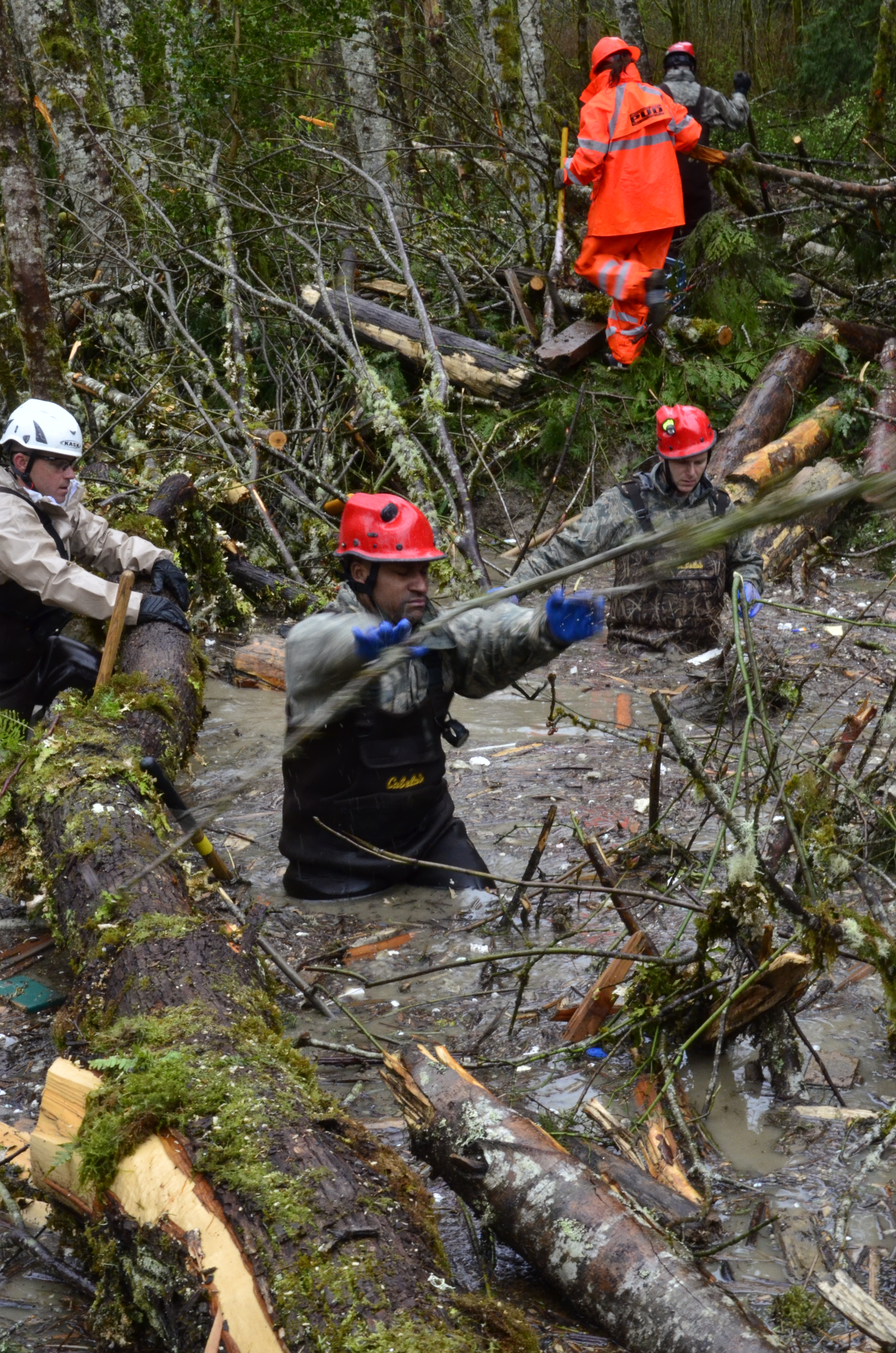 Senior Master Sgt. Monte Burnett (right), Master Sgt. Caleb Guthmiller (left), and Staff Sgt. James Tabarus (center), members of the Washington Air National Guard, 141 Civil Engineer Squadron, clear debris to help drain water out of their search area. National Guard members that have been activated to help are specifically trained in search and recover operations.